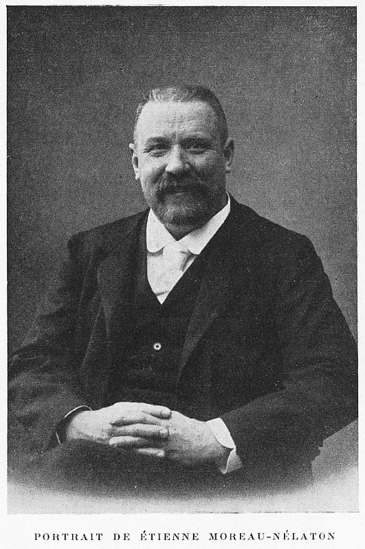 Étienne Moreau-Nélaton (1859-1927), Gazette des beaux-arts (Paris), 1927-01, p. 319